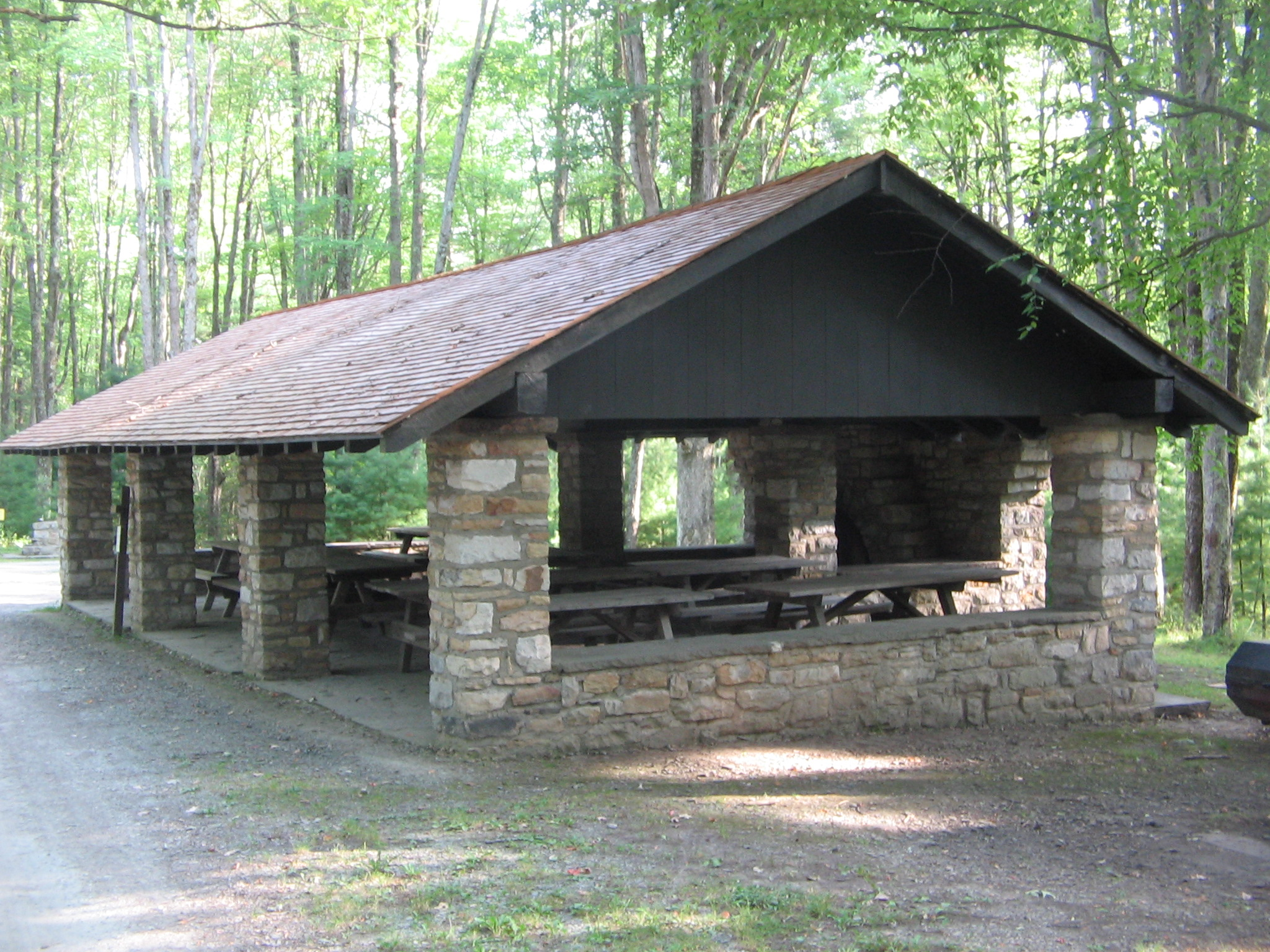 CCC-built Picnic Shelter 3 (north and east sides) in Colton Point State Park in Shippen Township, Tioga County, Pennsylvania, United States.